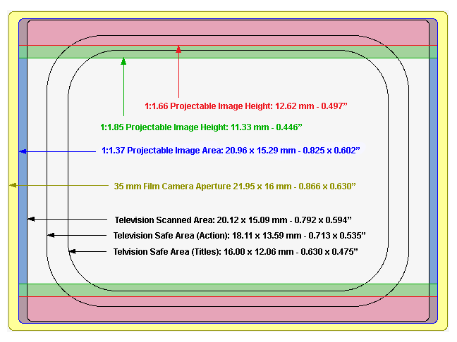 Areas of 35 mm film frame. Drawing by User:Janke, released to PD. Revision and color coding by User:Thephotoplayer.